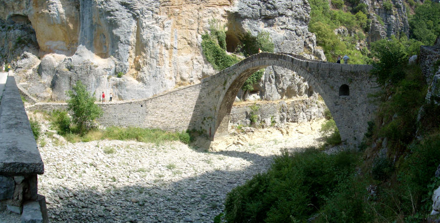 Kokori's bridge; stone arch bridge in Vikos-Aoos National Park, Ioannina Prefecture, NW Greece